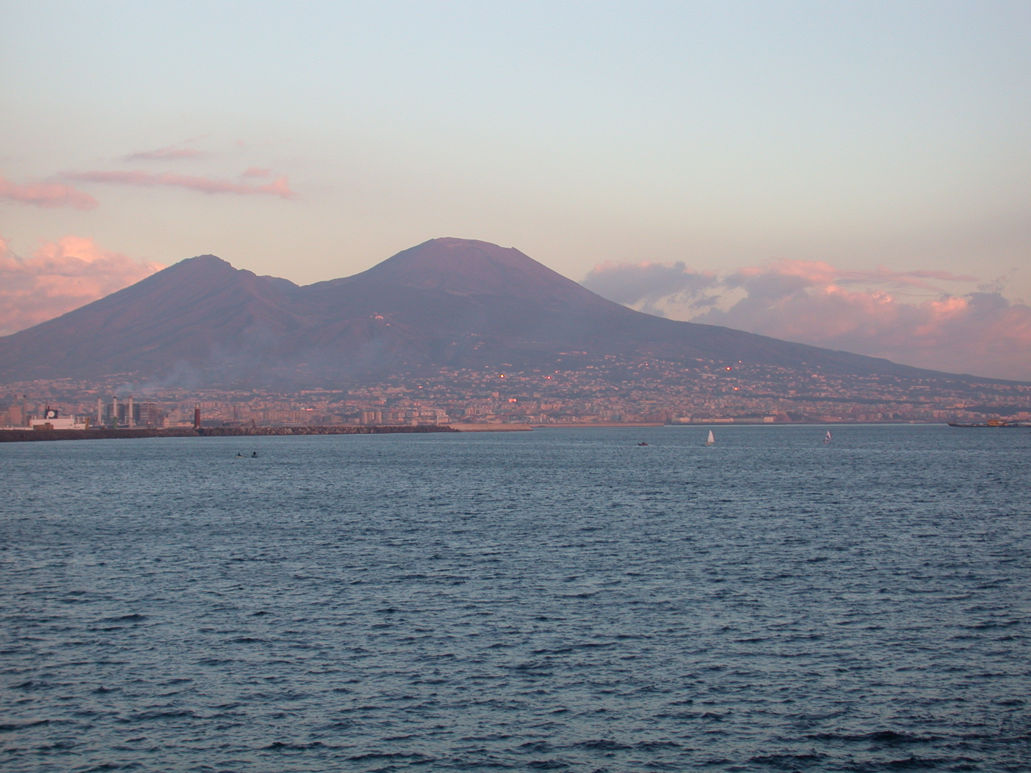 Mount Vesuvius from Naples with sunset lighting